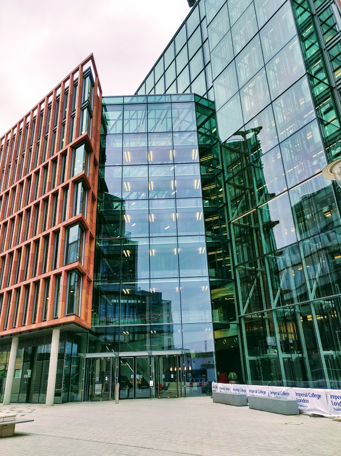 The first major Imperial College London building to open at the White City Campus, it is used by some of the college's industry partners